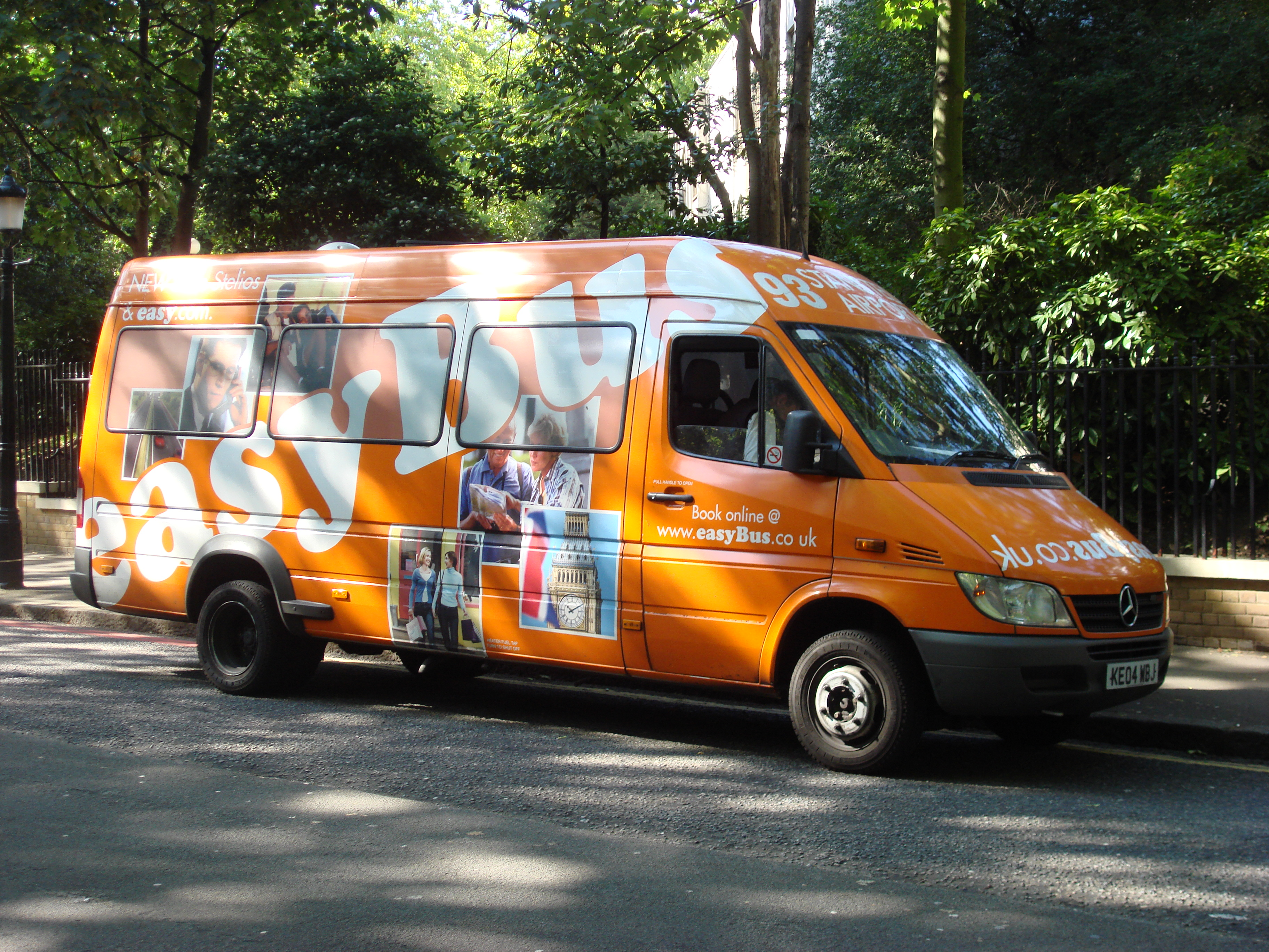 EasyBus near Baker Street